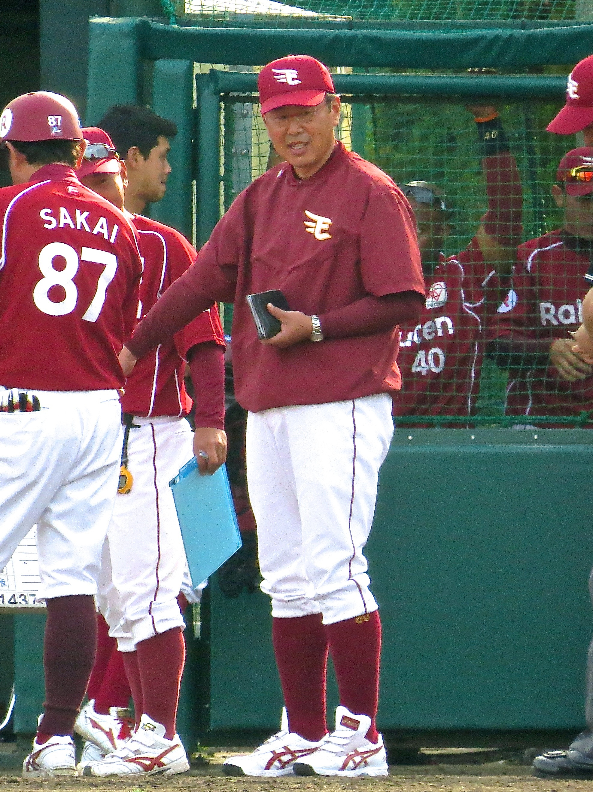 Toru Nimura, coach of the Tohoku Rakuten Golden Eagles, at Lotte Urawa Baseball Ground